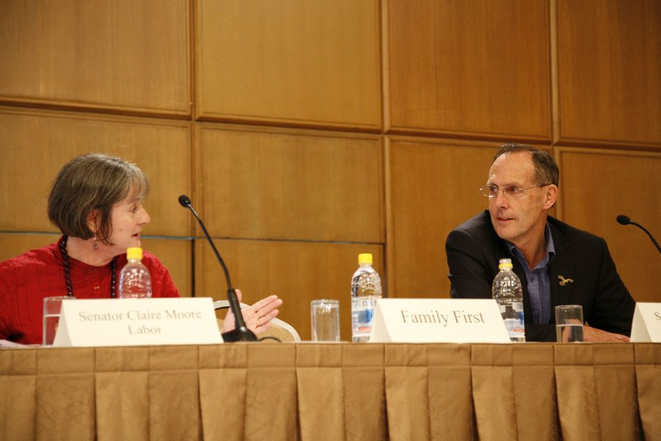 Claire Moore and Bob Brown.